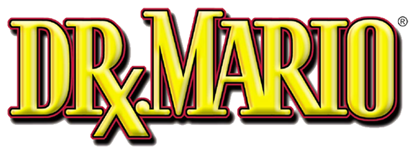 The most common logo of the Dr. Mario series.